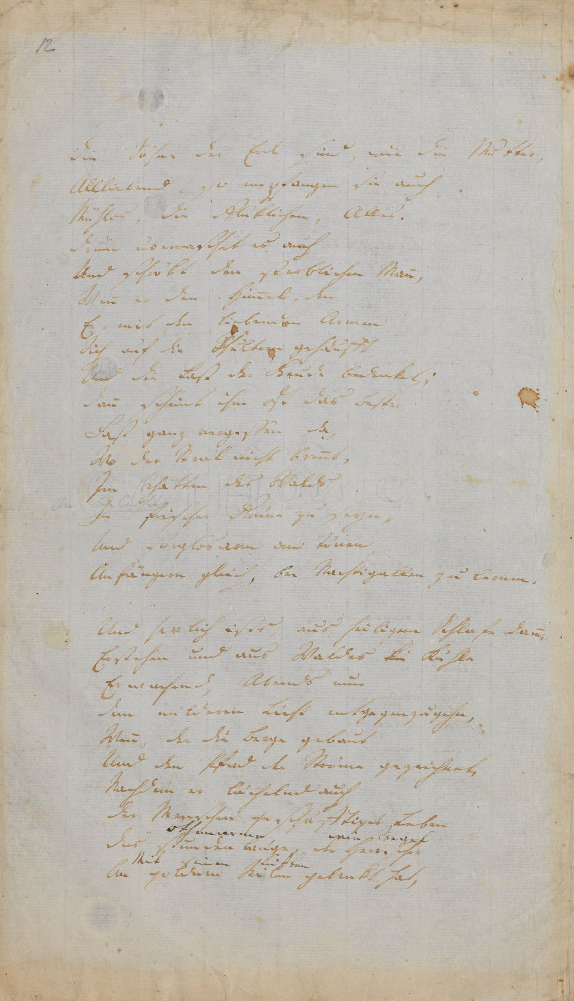 Manuscript of Friedrich Hölderlins poem "Der Rhein", Württembergische Landesbibliothek, page 8